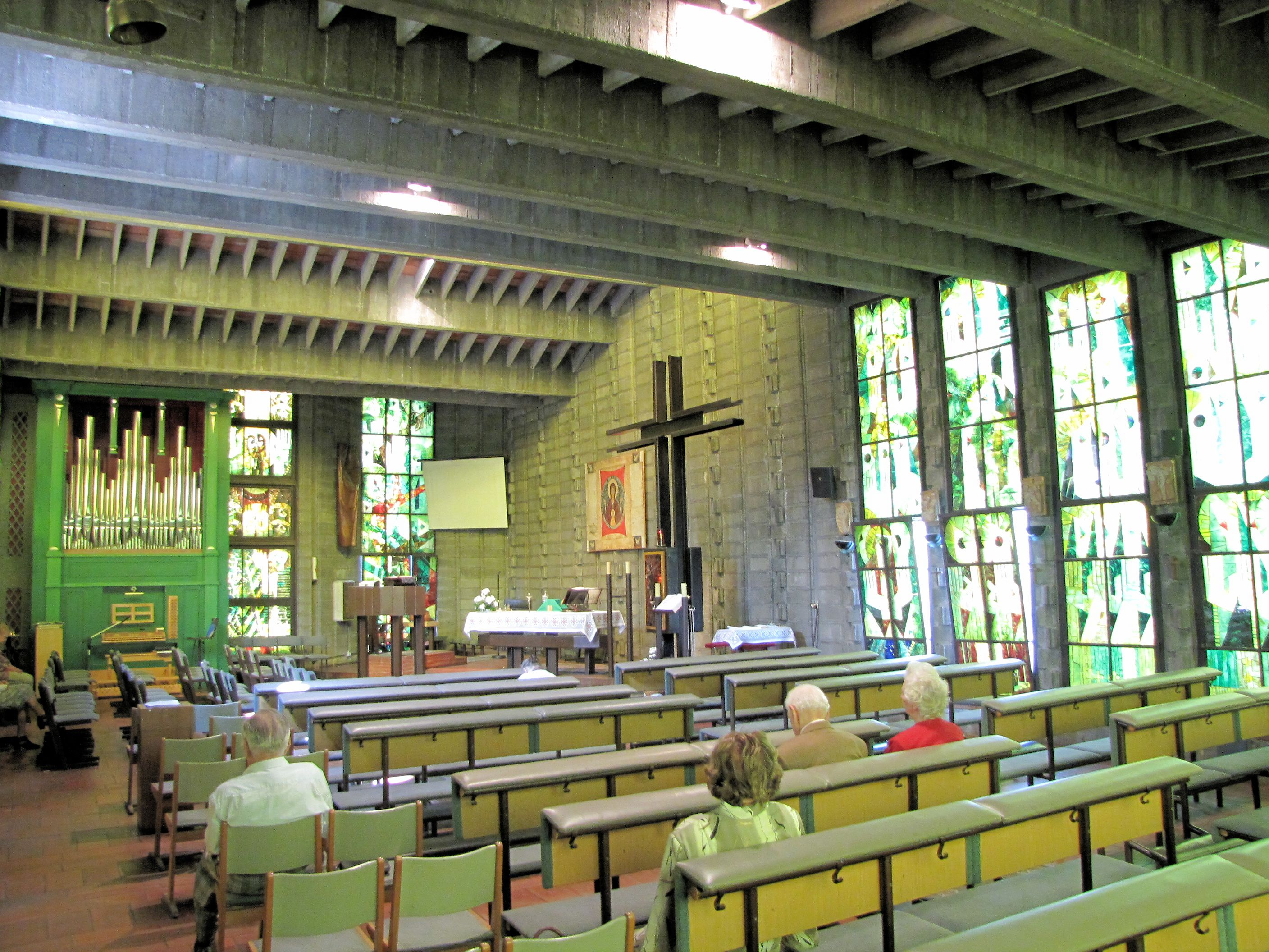 All Saints Church, Budapest District XII